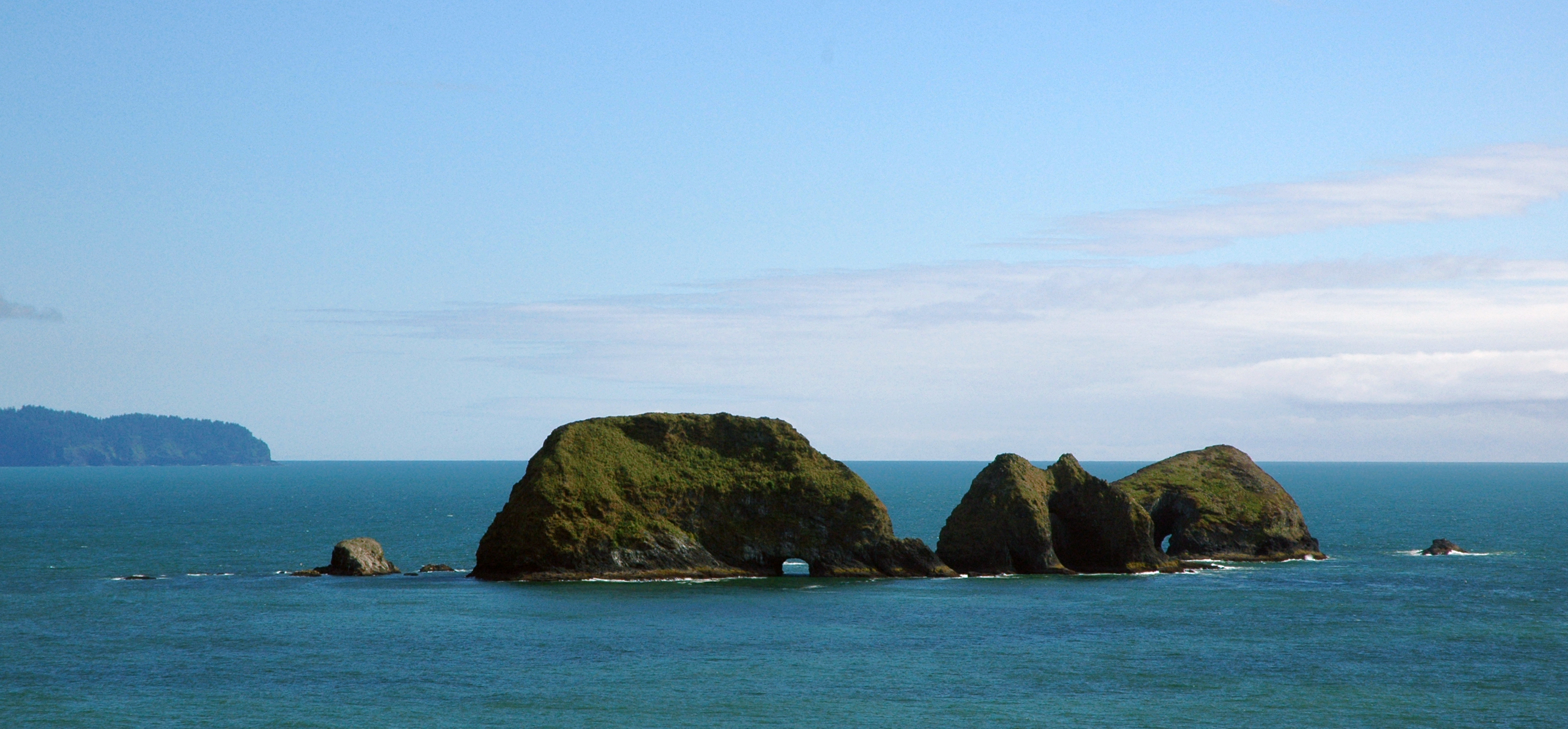 View on Three Arch Rocks from the Cape Meares Lighthouse, Oregon.